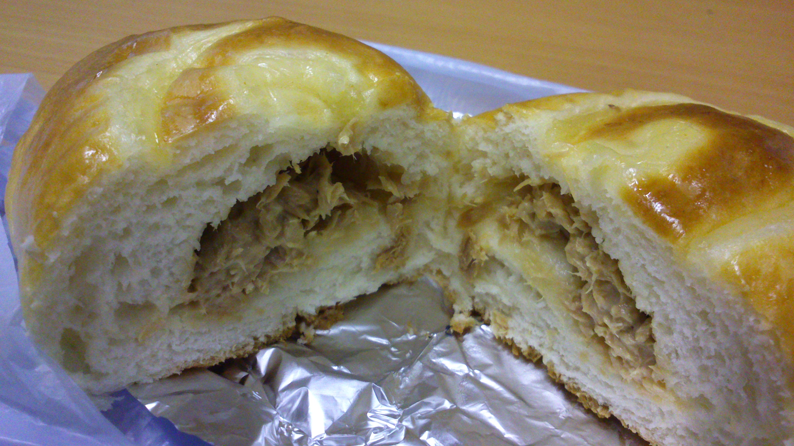 The filling of a tuna bun is canned tuna.